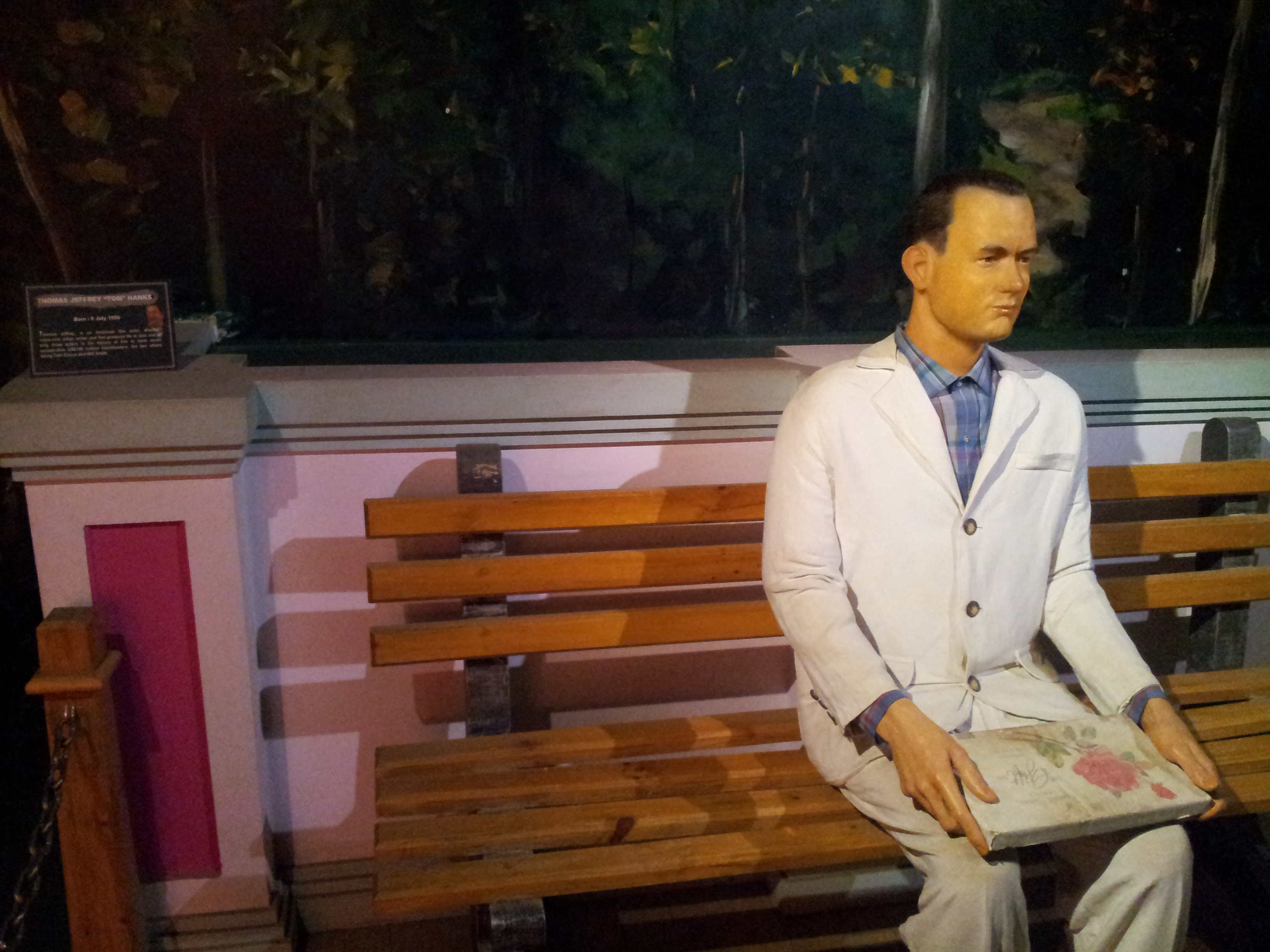 Snap from Wax Museum at Innovative Film city Bangalore